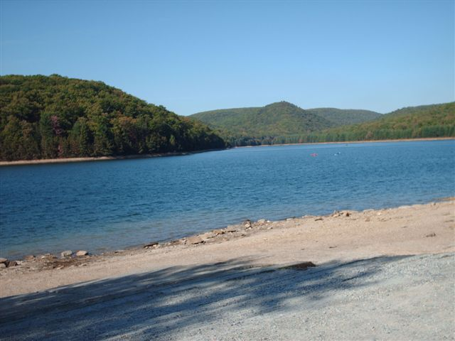 Michaux State Forest in drough. The reservoir has shrunken 30 feet.